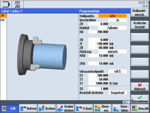 Sinumerik with shop turn software